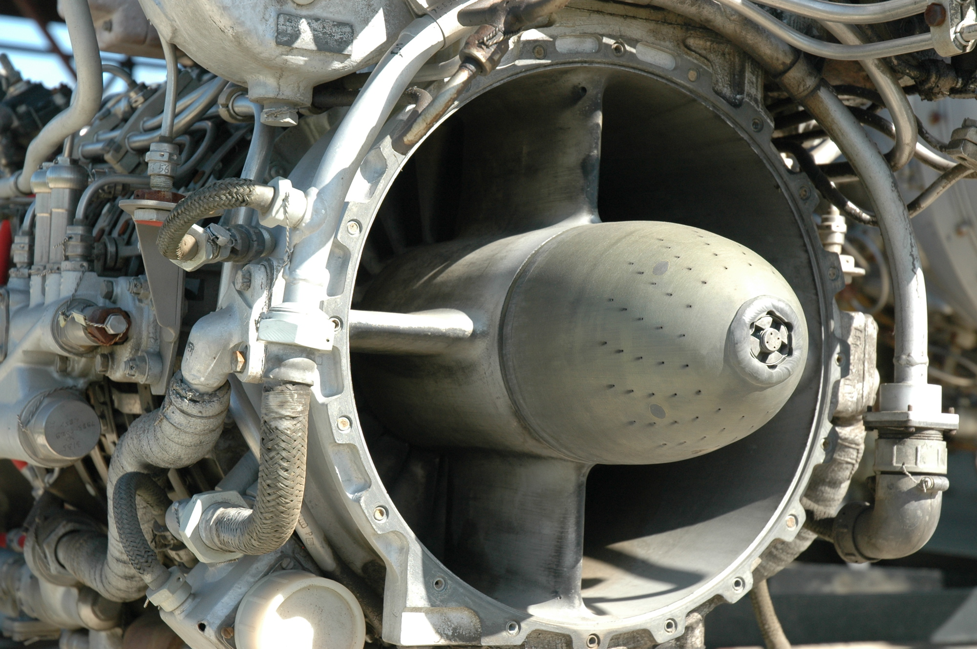 Isotov TV2-117A turboshaft engine (displayed at the Hungarian Aviation Museum in Szolnok)